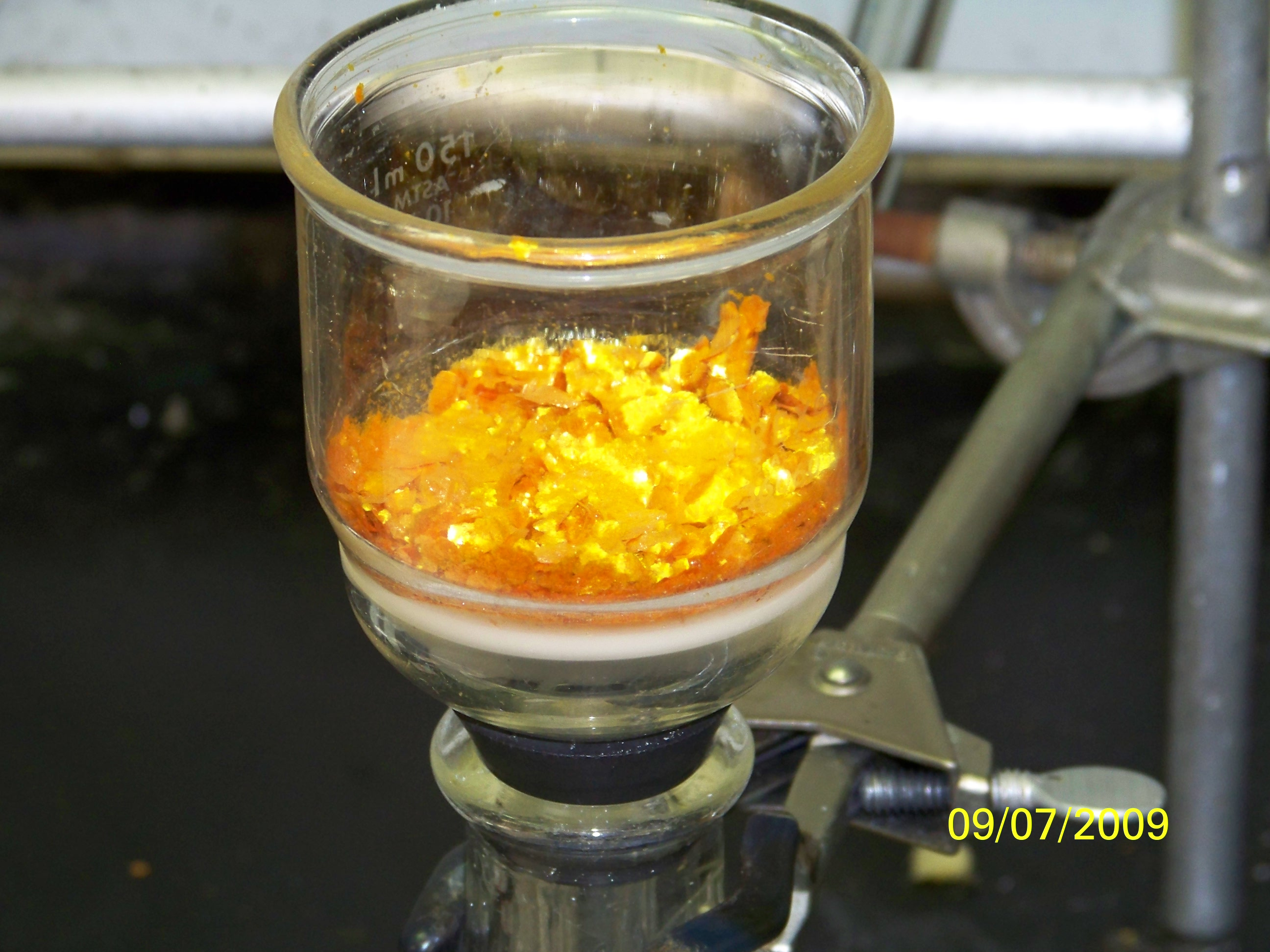 Sample of Fe2(CO)9 (Diiron nonacarbonyl) on sintered glass filter funnel